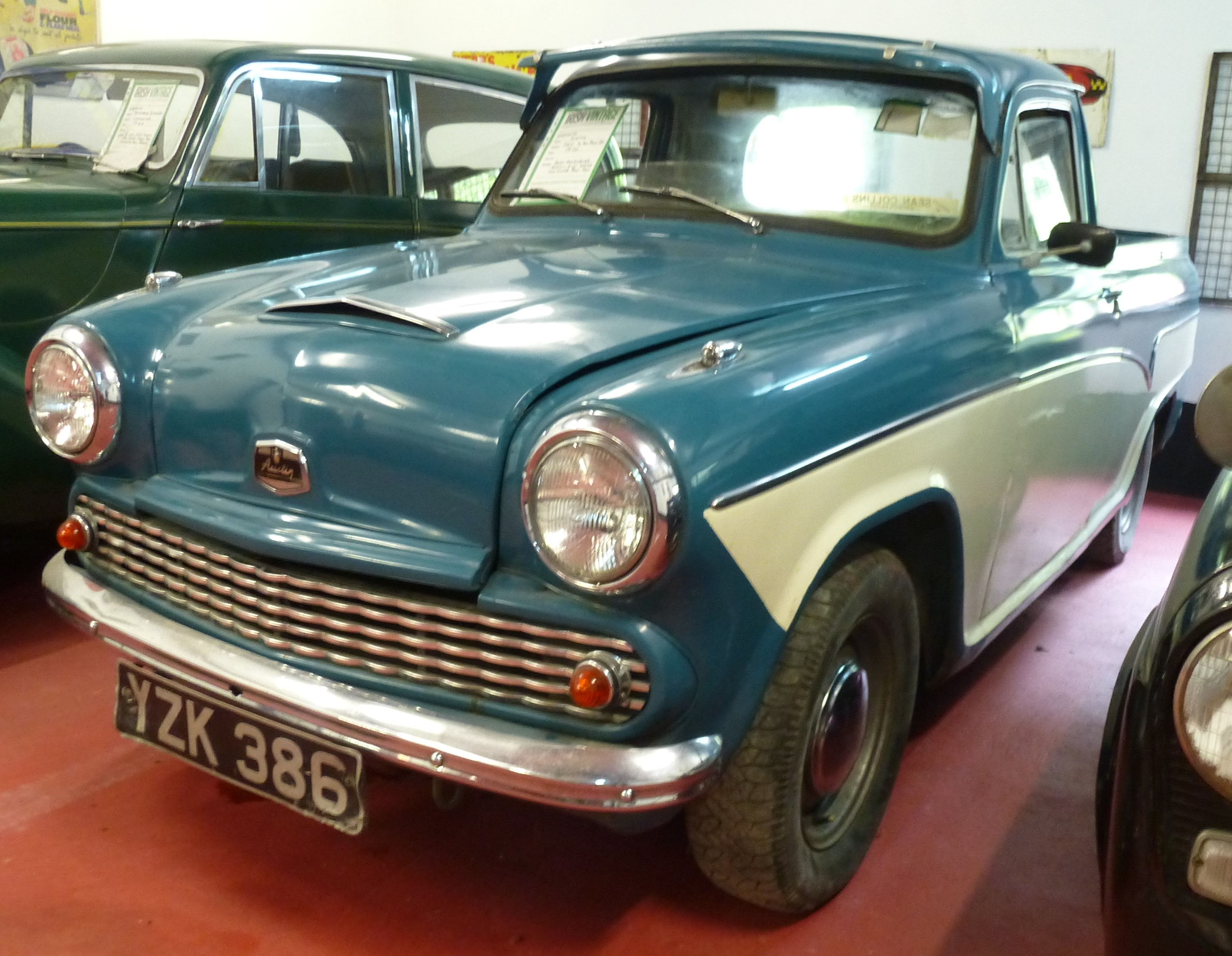 Austin A 60 von Brittain Group aus Irland